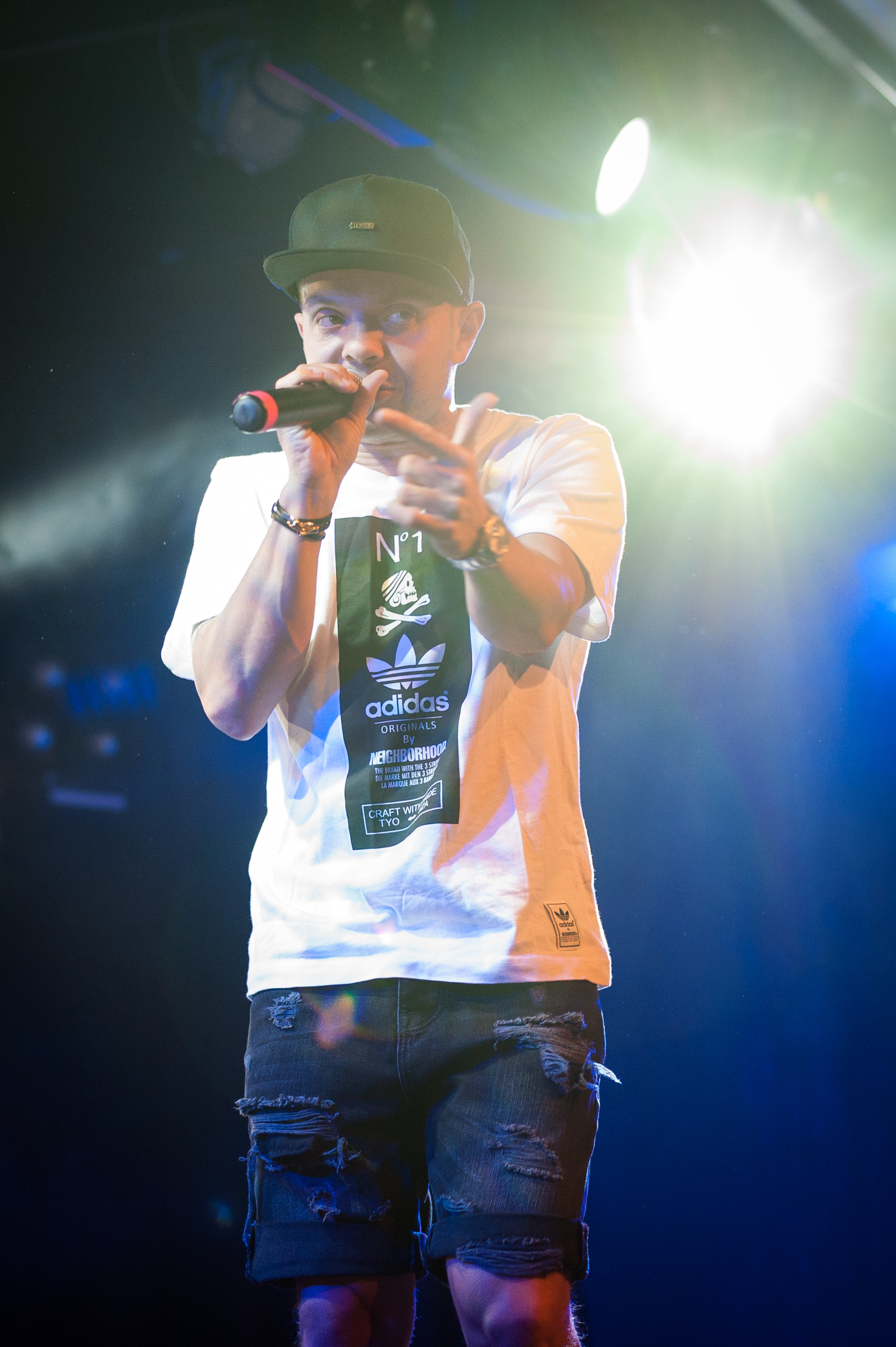 Finnish rapper Uniikki at Kerubi in Joensuu, Finland.